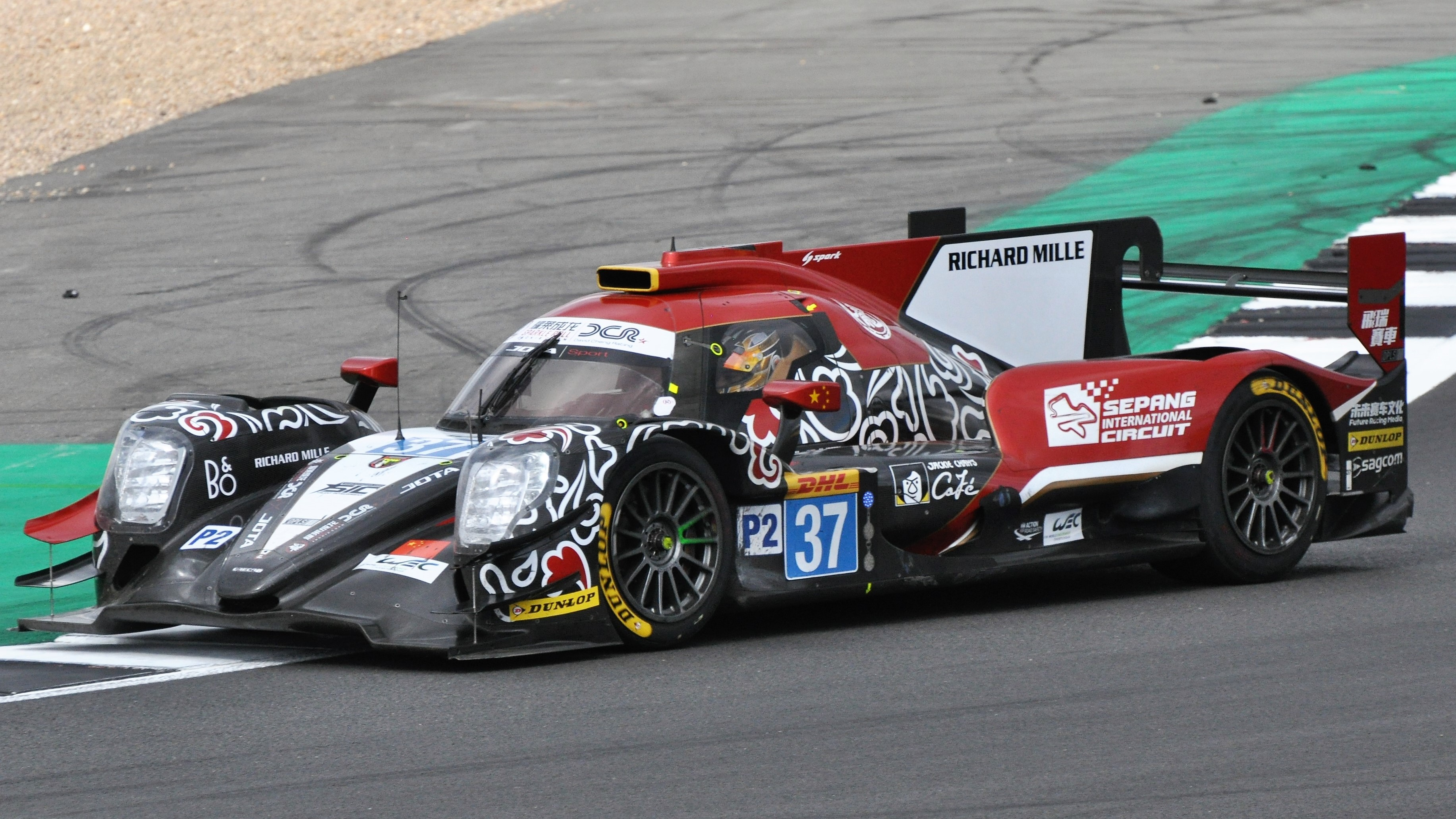 Malaysian driver Nabil Jeffri slots the number 37 Jackie Chan DC Racing-entered Oreca 07 car into Club corner during the 2018 6 Hours of Silverstone race. Jeffri and his compatriot co-drivers, Jazeman Jaafar and Weiron Tan, finished second in the LMP2 class and fifth overall.